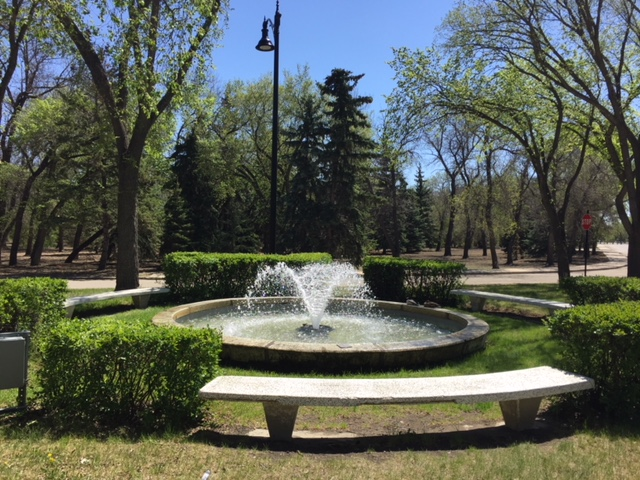 Fountain east of the Legislative Building, Wascana Park, Regina, Saskatchewan